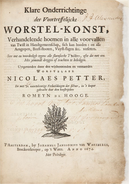 Cover of the book "Klare onderrichtinge der voortreffelijke worstel-konst" (Clear Education in the Magnificent Art of Wrestling), published by Dutch wineseller and wrestler Nicolaes Petter in 1674, with illustrations by Romeyn de Hooghe (1645-1708)